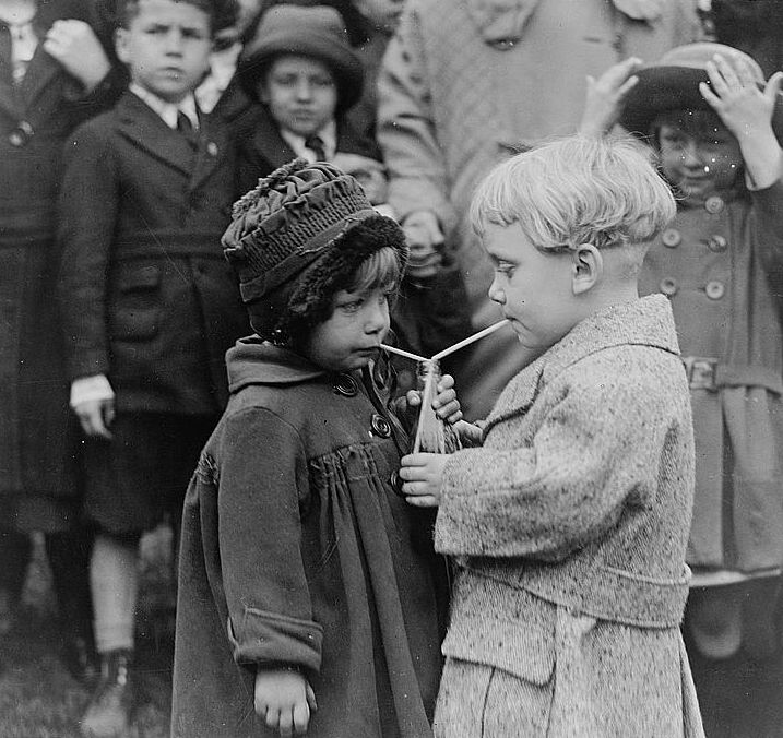 A boy and a girl sharing a drink, each with their own straw in the bottle. Caption continues: Snaped (i.e., snapped) at the White House today. In album: Washington, D.C., 1 April 1922 to 29 April 1922, v. 4, Herbert E. French, National Photo Company, p. 25, no. 18523. Forms part of: National Photo Company Collection (Library of Congress). Original glass negative may be available: LC-F8-18523